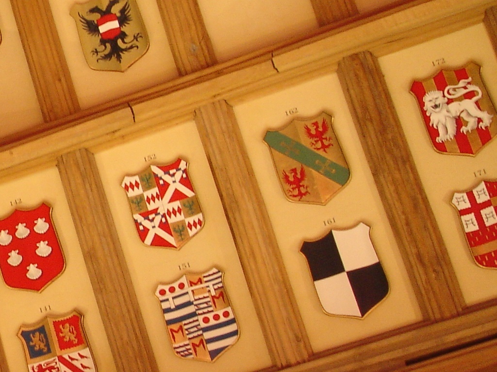 Coats of arms of Knights of the Garter on the ceiling of St George's Hall, Windsor Castle. Top left: Albert V of Austria; 142: Lord Scales; 152: Richard Neville, Earl of Salisbury; 162: Alvaro d'Almada, Count of Avranches; 172: presumably Sir Edward Hull? (Paly Gules and Or, a lion statant guardant Argent); 141: John Talbot, Earl of Shrewsbury; 151: Sir John Grey; 161: Sir Thomas Hoo; 171: Lord Bourchier.